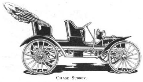 Chase Motor Truck Company - 15 HP Model F Surrey 1909